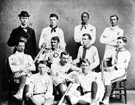 Photograph of 1881 Oberlin College baseball team, including Moses Fleetwood Walker (seated at left) and Weldy Walker (standing in back row)